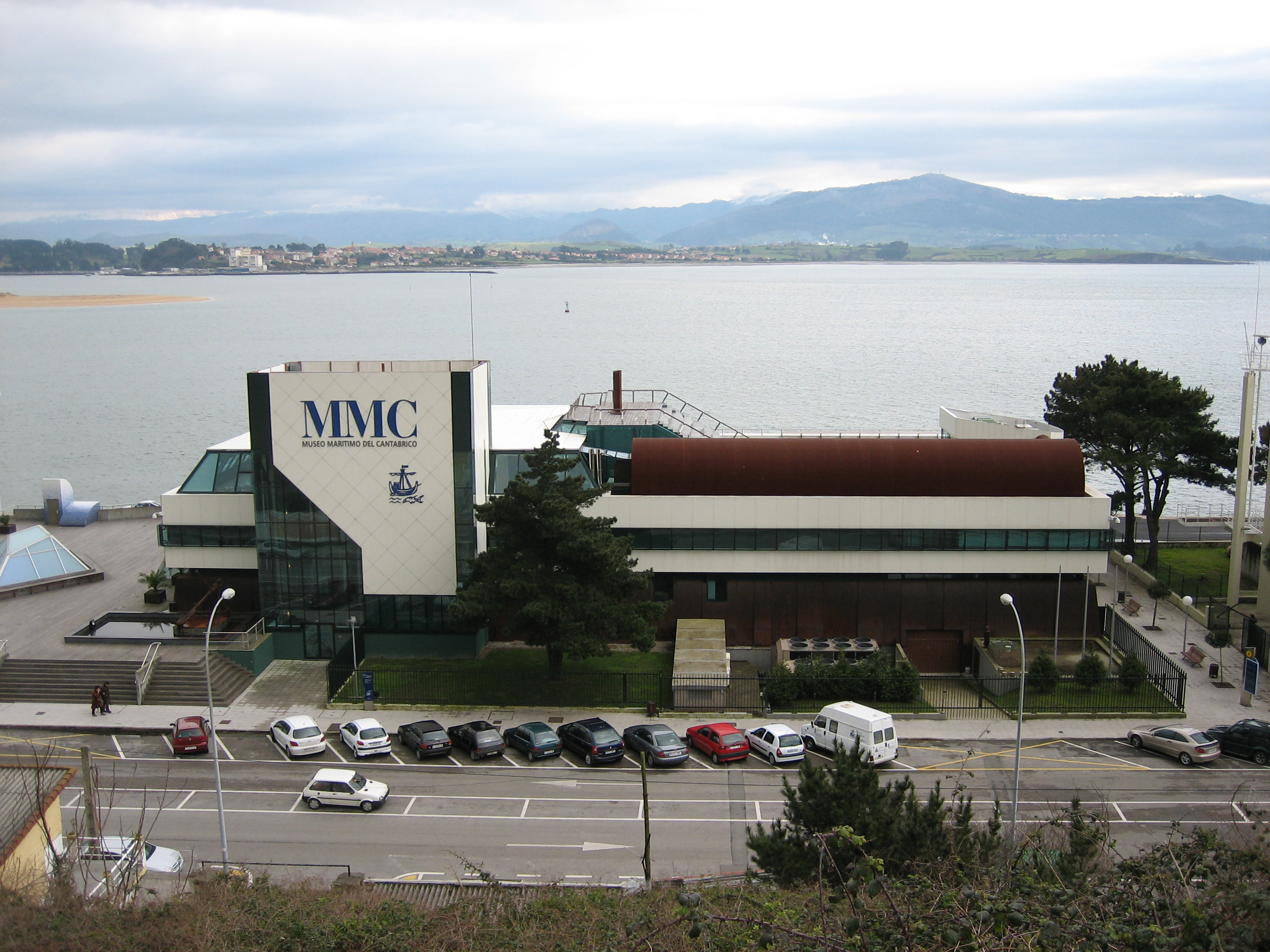 Cantabric See Museum. Located by the bay of Santander (Spain).